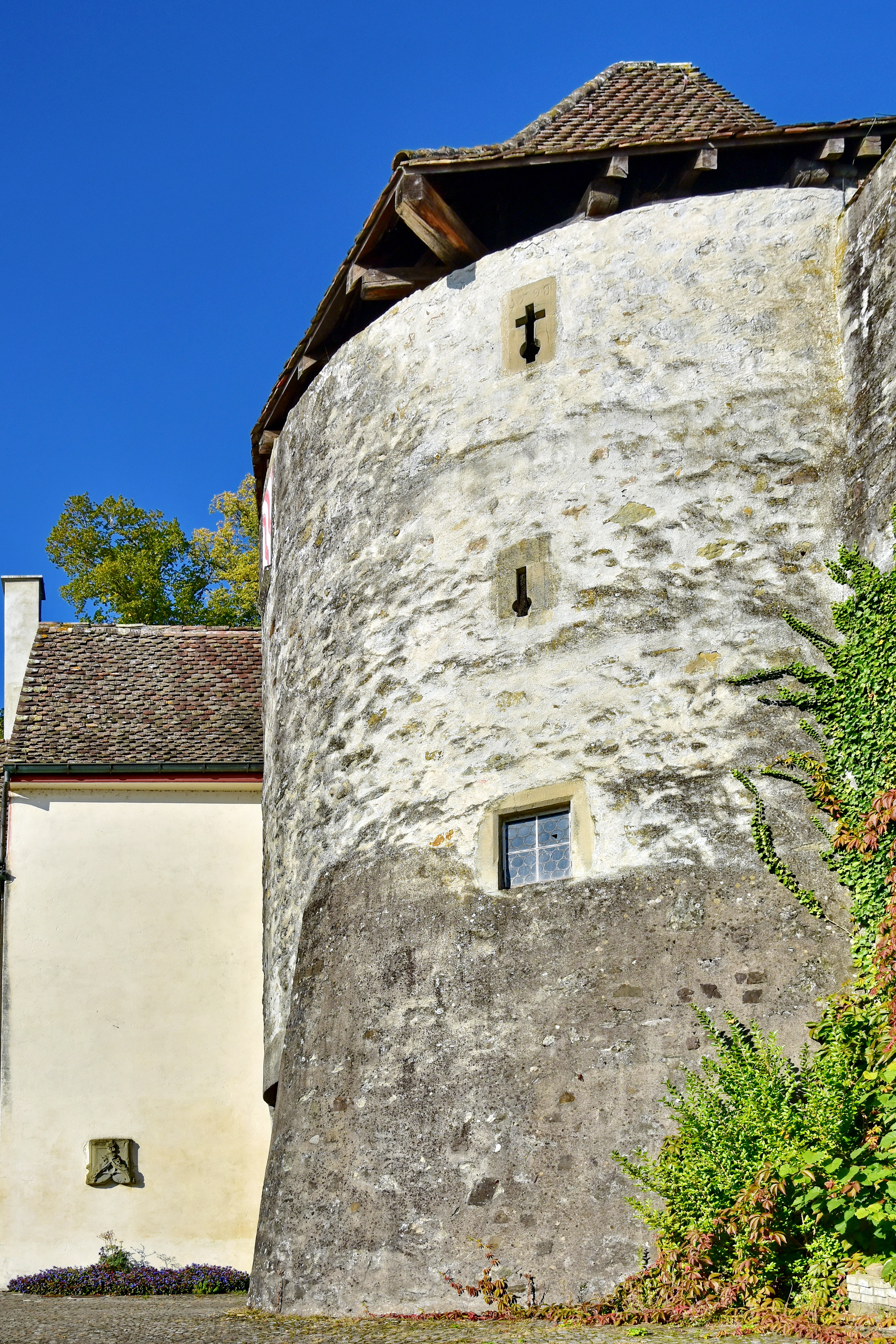 Lakeshore at Endingen in Rapperswil (Switzerland) : Einsiedlerhaus and Endingerturm as seen from Bühler-Allee.